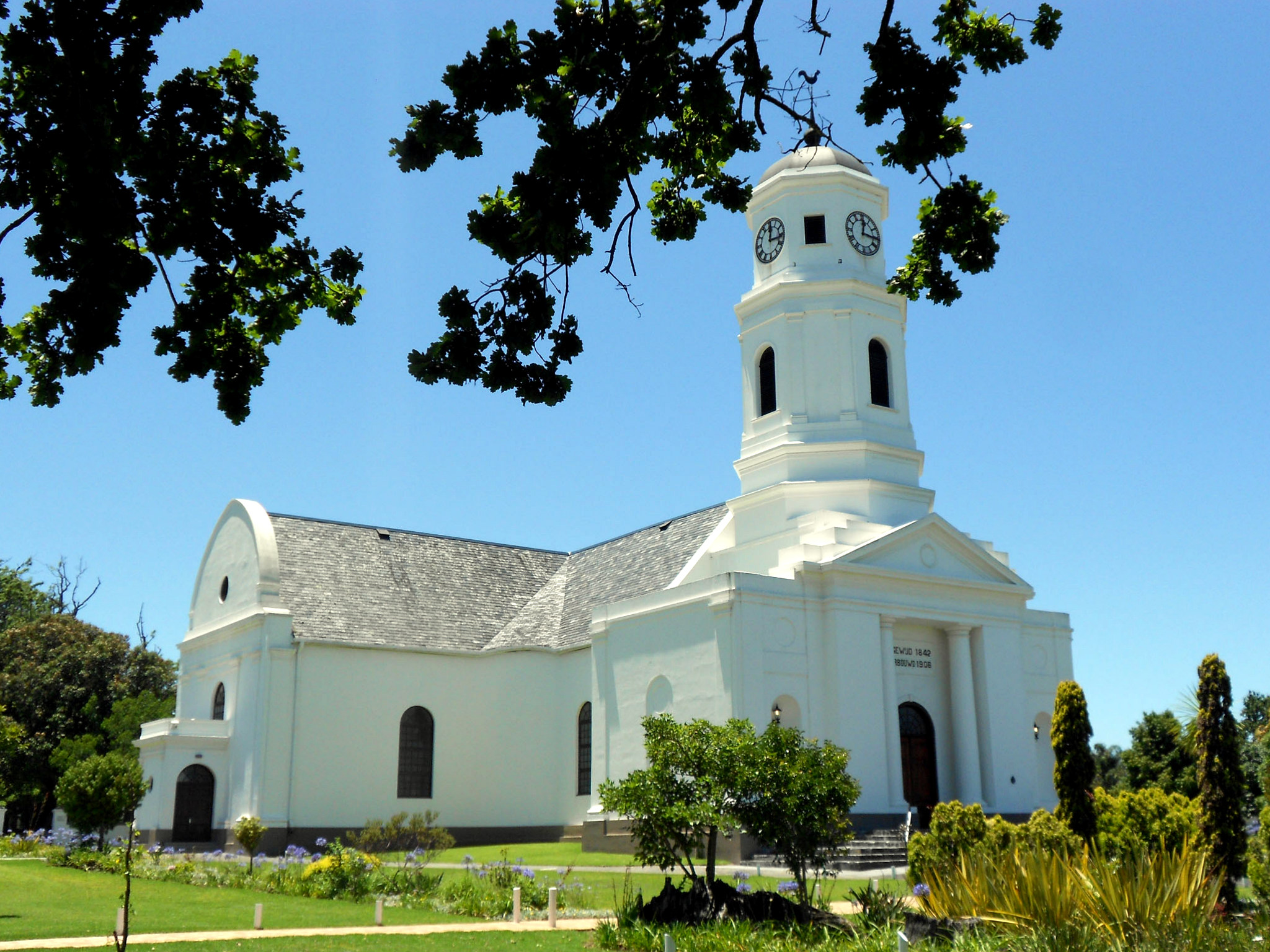 Cornerstone laid 1830, Completed in 1842 Tower collapsed in 1905 and restored in 1906 This media shows a South African Protected Site with SAHRA file reference 9/2/030/0016.